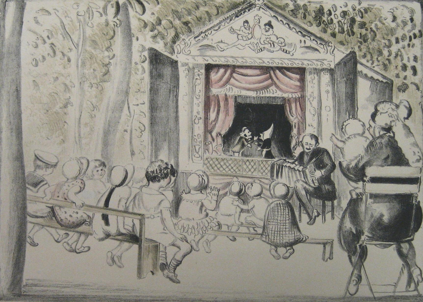 Mabel Dwight,Guignolette (Paris), 1927, hand colored lithograph, 21.3 x 30.2 cm, edition of 12